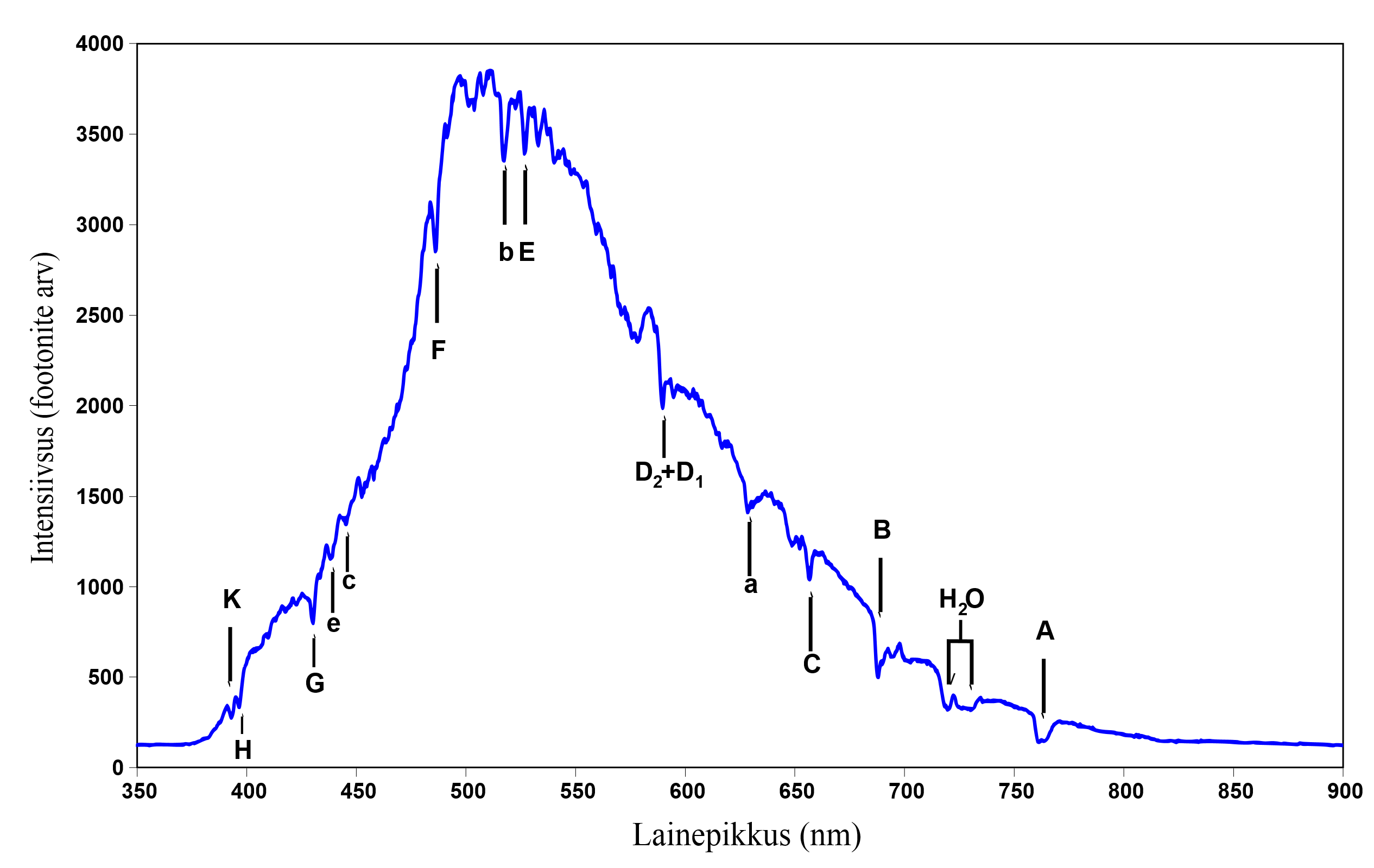 Spectrum of blue sky somewhat near the horizon pointing east at around 3 or 4 pm on a clear day. Spectrum was taken using an Ocean Optics HR2000 spectrometer [1] with a high-OH solarization-resistant fiber optic light guide. this spectrum is NOT BY ANY MEANS IDEAL and was taken from inside a laboratory through probably 4 panes of window glass, thus completely attenuating virtually all radiation below 400nm also the end of the fiber optic was not coupled to any collimating optics thus there may be some slight skewing of the spectrum due to diffuse reflections off surrounding buildings and trees etc. Because the response of the CCD detector in the spectrometer is not linear the spectrum in the infrared region is also less than what is actually present in sunlight; the blackbody spectrum of sunlight continues much further into the infrared than is shown here. This spectrum is not calibrated for intensity.